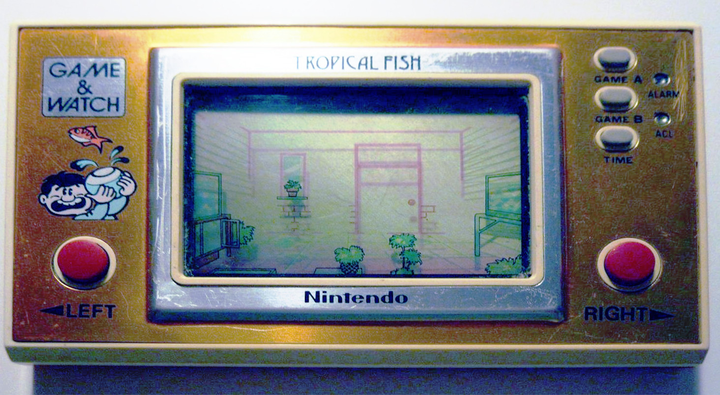 Tropical Fish - Game&Watch - Nintendo